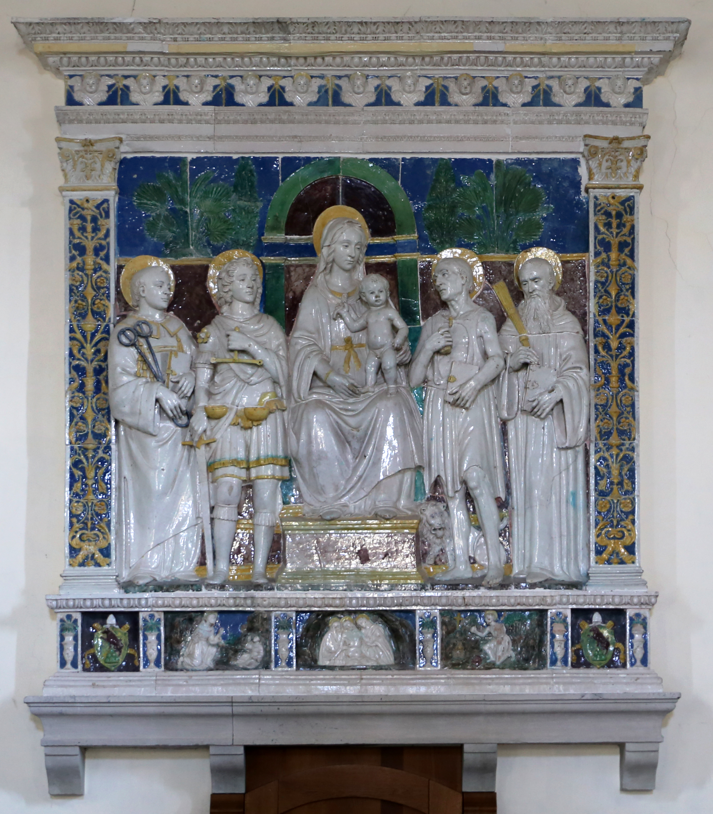 San Michele Arcangelo (Badia Tedalda)